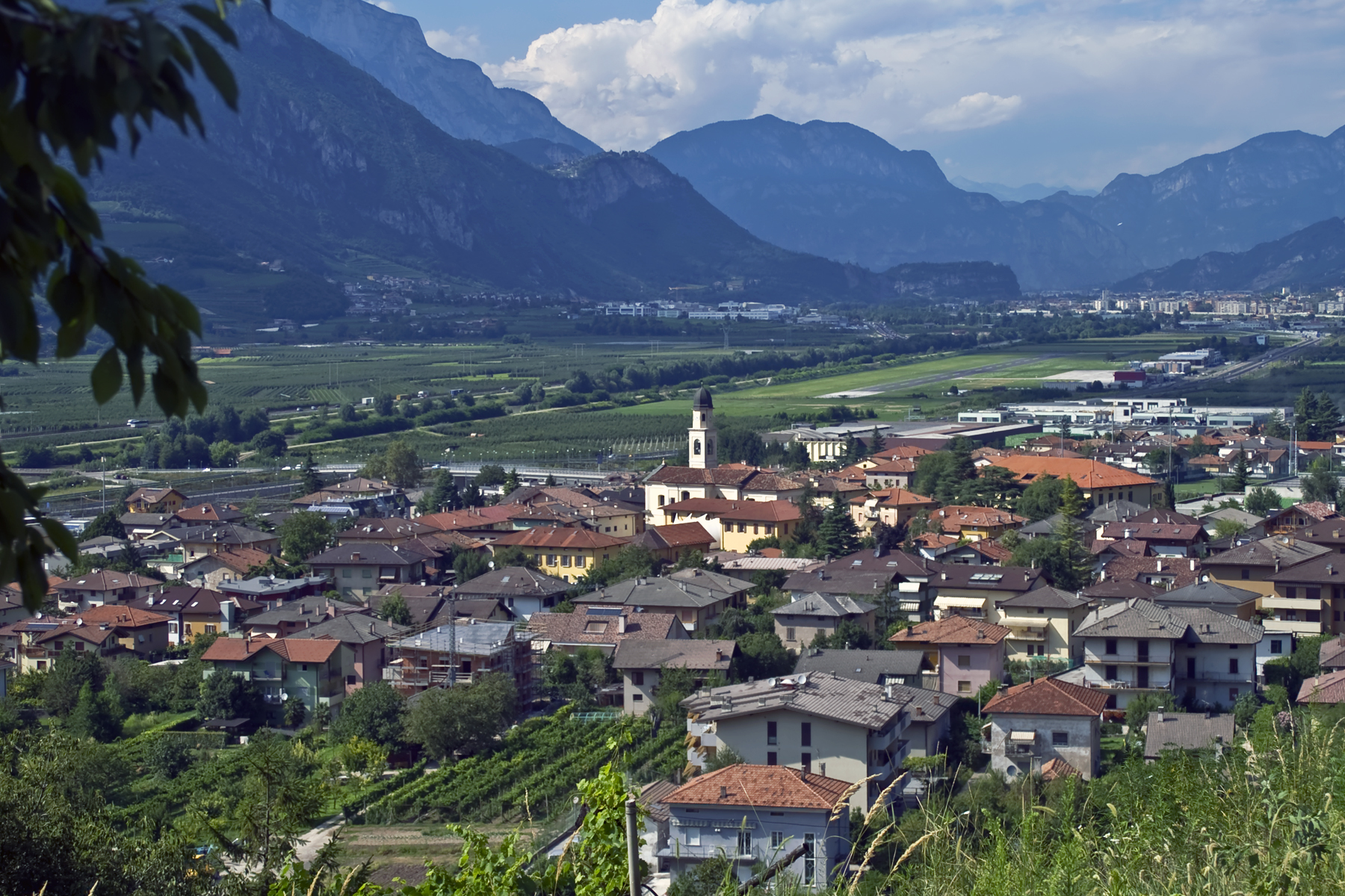 Panoramic view of Mattarello di Trento Italy